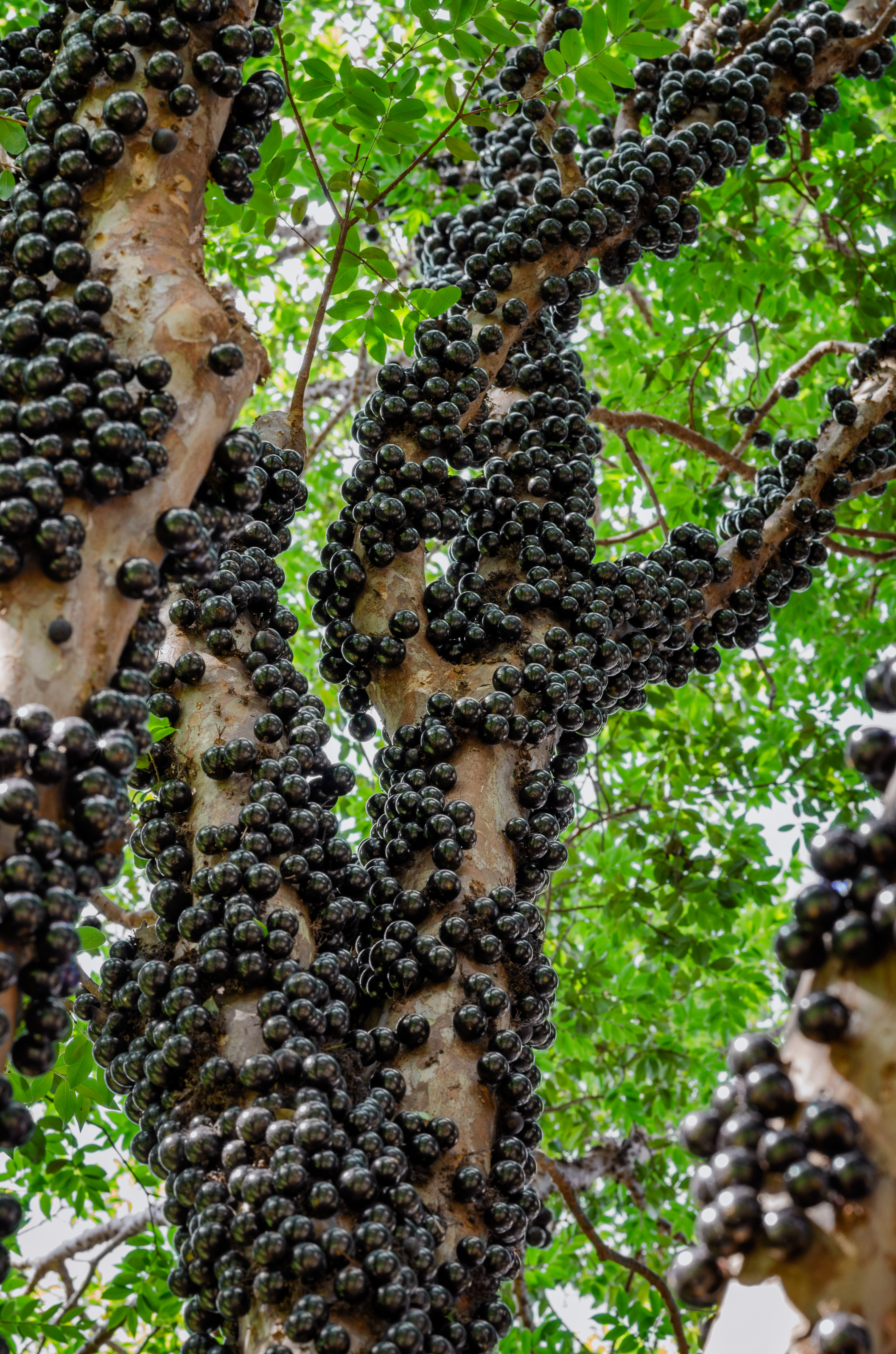 Jabuticaba fruit, Plinia cauliflora (syn. Myrciaria cauliflora), at Nova Odessa - SP, Brasil.